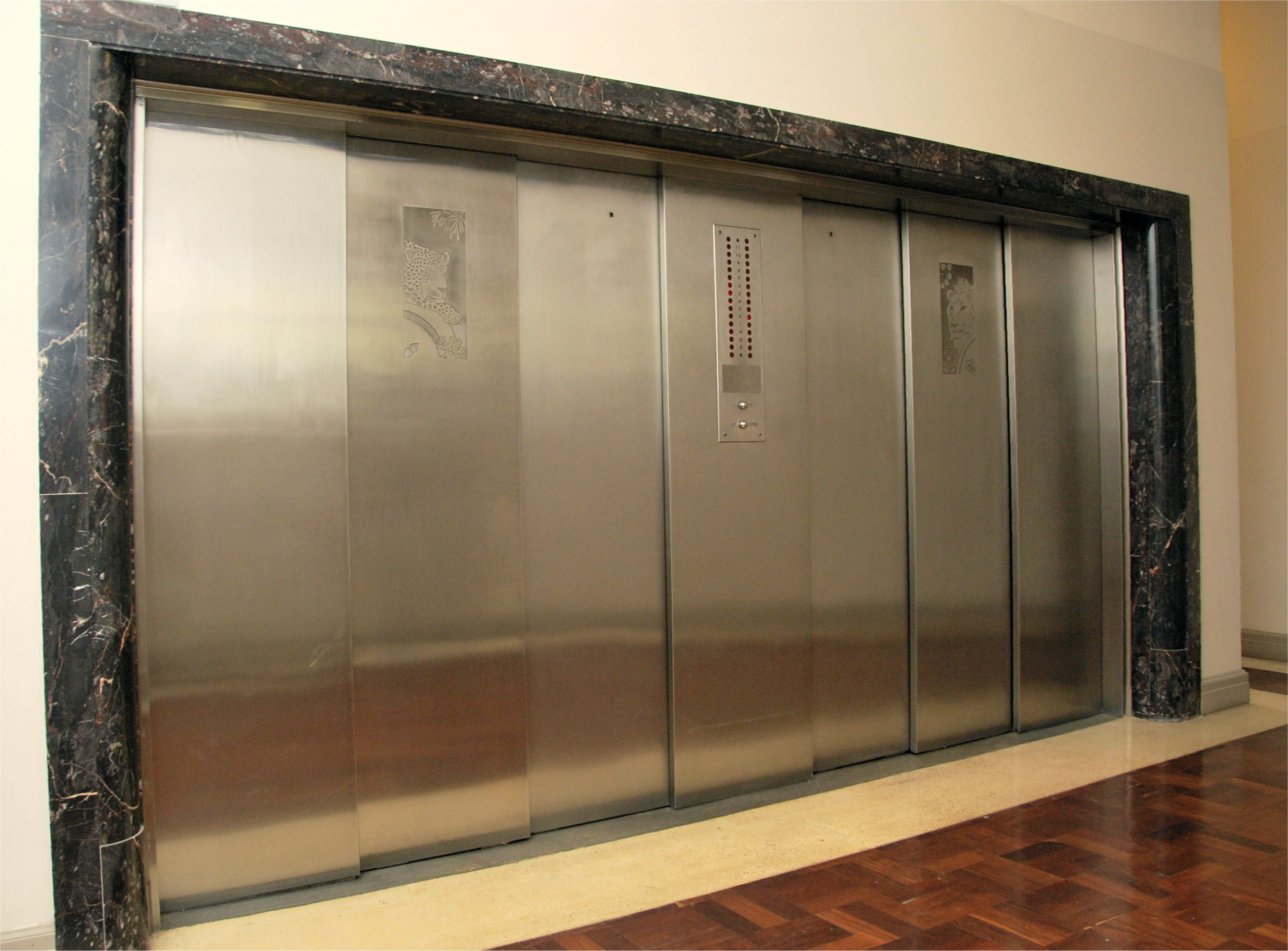 The main lifts in the Mutual Building are edged in black marble, and have etched images on the stainless steel doors that are attributed to Ivan Mitford-Barberton.